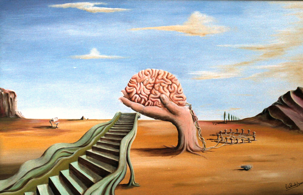 "BrainChain" arcryl on canvas 80 x 120cm . Also there are 250 numbered and sign serigraphs of this painting.